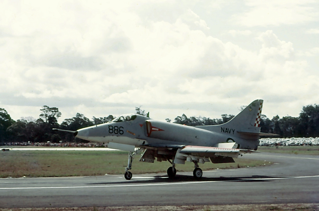 A Royal Australian Navy Douglas A-4G Skyhawk ("886") of 805 Squadron taxis in after performing its routine at Naval Air Station at Nowra (HMAS Albatross). HMAS Albatross held an open day and air show to celebrate the twenty first anniversary of the Naval Air Station at Nowra. The Royal Australian Navy had a well deserved reputation for having the best air shows in NSW and this day was no exception. There was a huge attendance and it took some hours to cover the few kilometres into Nowra at the end of the day. The return to Sydney that night was bumper to bumper traffic all the way. The A-4G 886 (USN BuNo 154907) was lost at sea when it rolled off the deck of RAN carrier HMAS Melbourne (R21) on 24 September 1979. Melbourne was caught in a storm circa 350 km east of Australia when the ship suddenly rolled 20 degrees to starboard and the aircraft was lost.